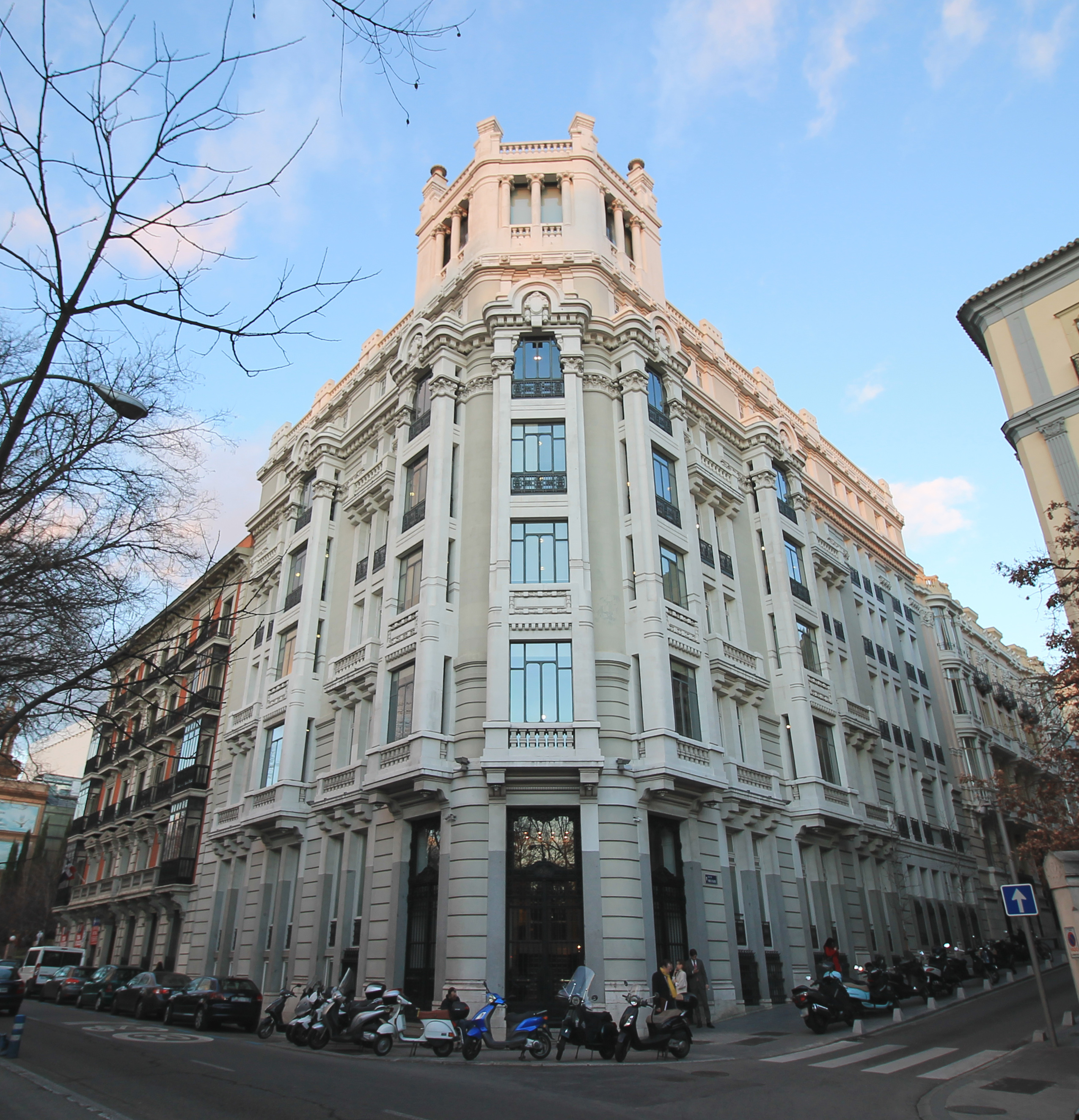 Building at 28th Paseo de la Castellana (avenue) in Madrid (Spain).